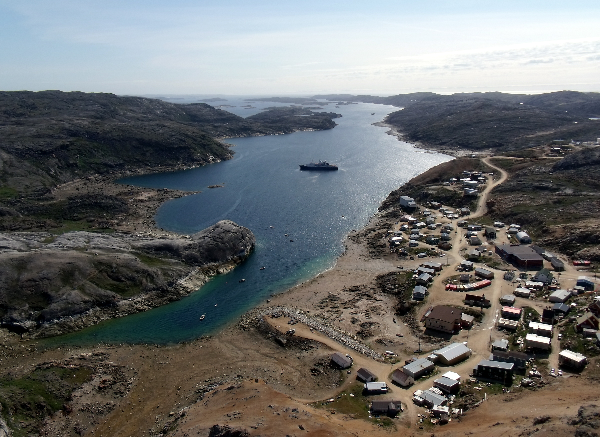 Kimmirut in August. Aerial view of 'downtown' Lake Harbour. Once the 30+ vertical foot tide comes in, tourists will meet carvers.